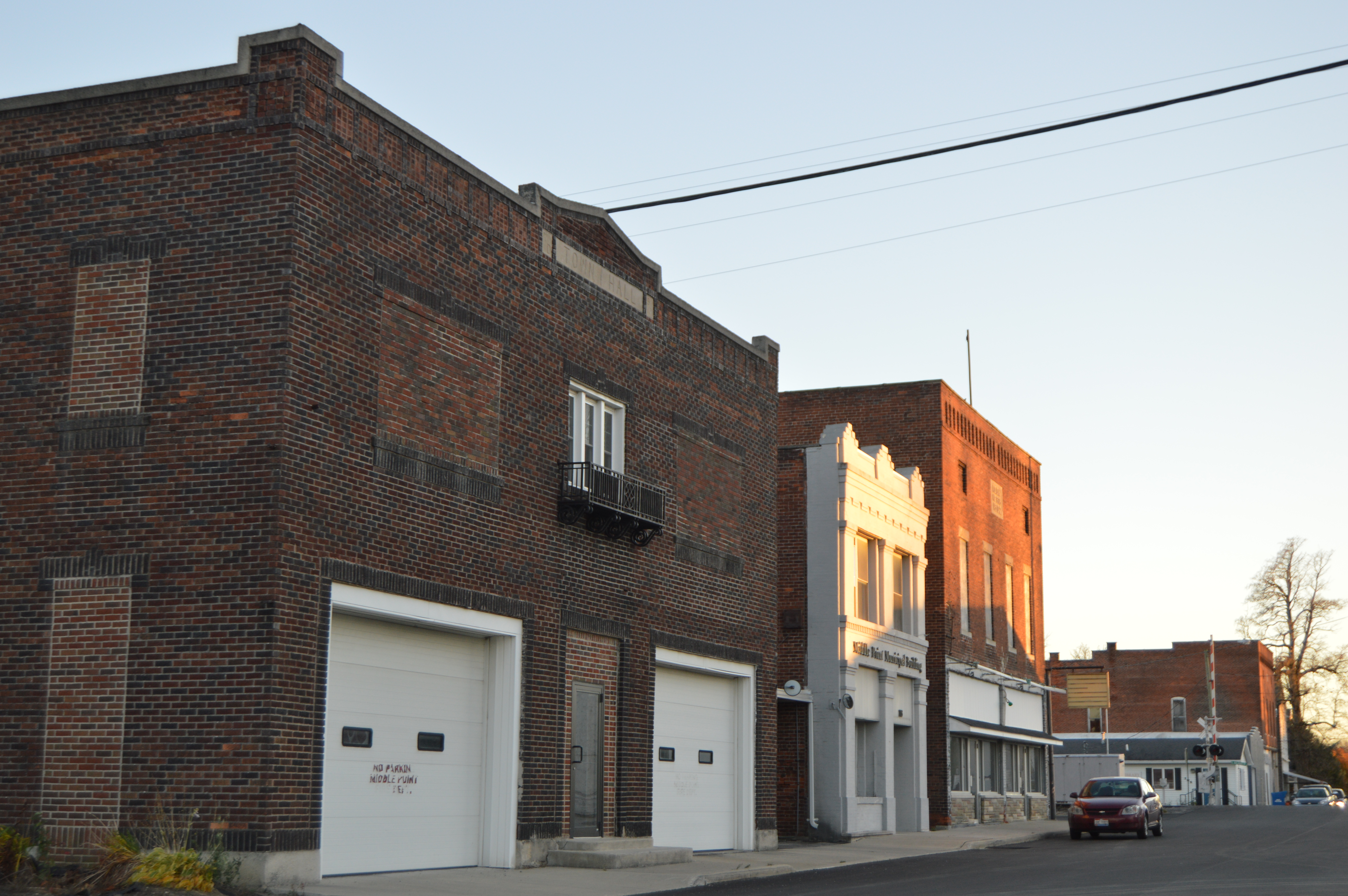 Buildings on the eastern side of the 100 block of N. Adams Street in Middle Point, Ohio, United States.